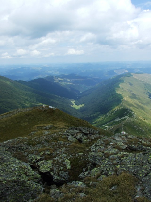 Lala river valley, seen from the Ineuţ Peak, Rodnei Mountains, RomaniaRomână: Valea râului Lala - vedere de pe vârful Ineuţ